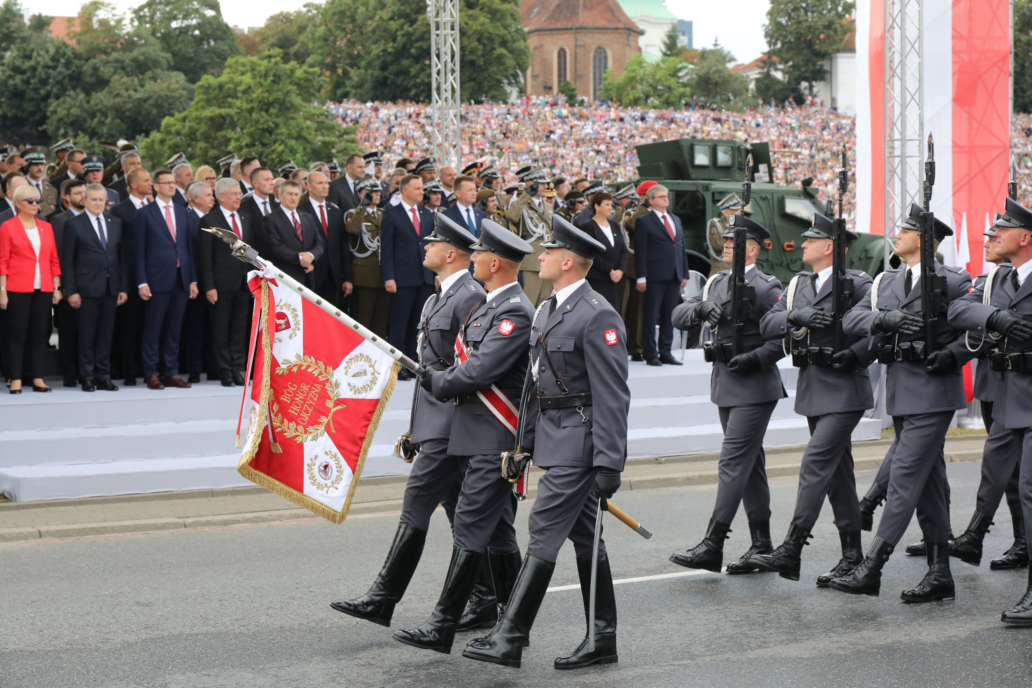 Warsaw. Poland. August 15, 2018. Celebration of the Polish Army Day with the participation of the Speaker of the Sejm. Great Independence Defilade.